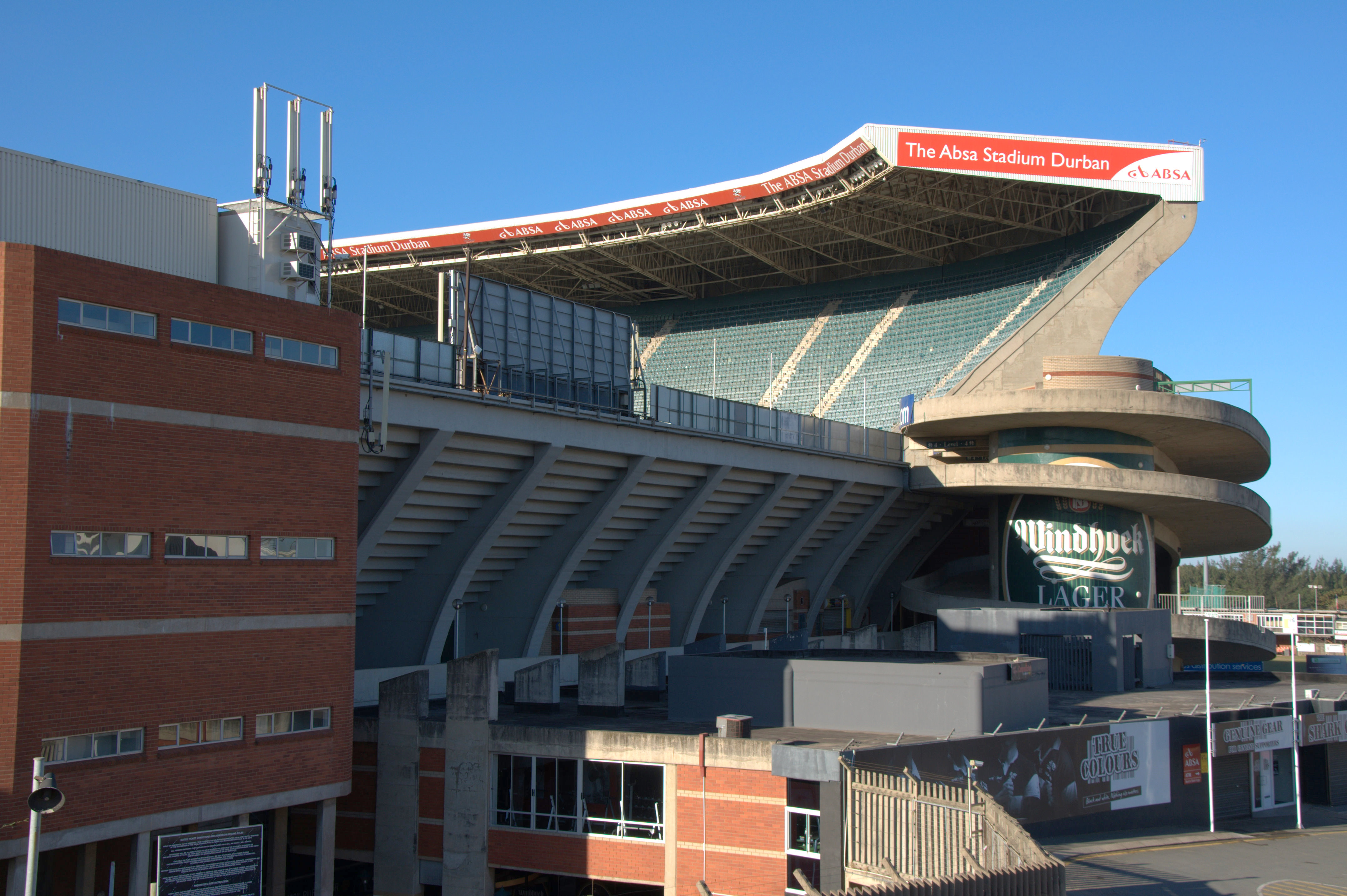 South Africa, ABSA Stadium Durban